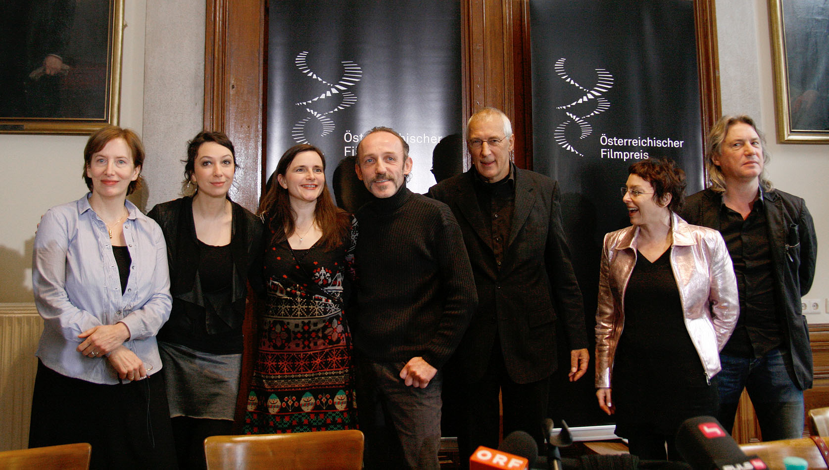 Marlene Ropac, Ursula Strauss, Barbara Albert, Karl Markovics, Josef Aichholzer, Karina Ressler and Harald Sicheritz during the press conference in advance of the Austrian Film Awards 2011 at the Odeon theater in Vienna.